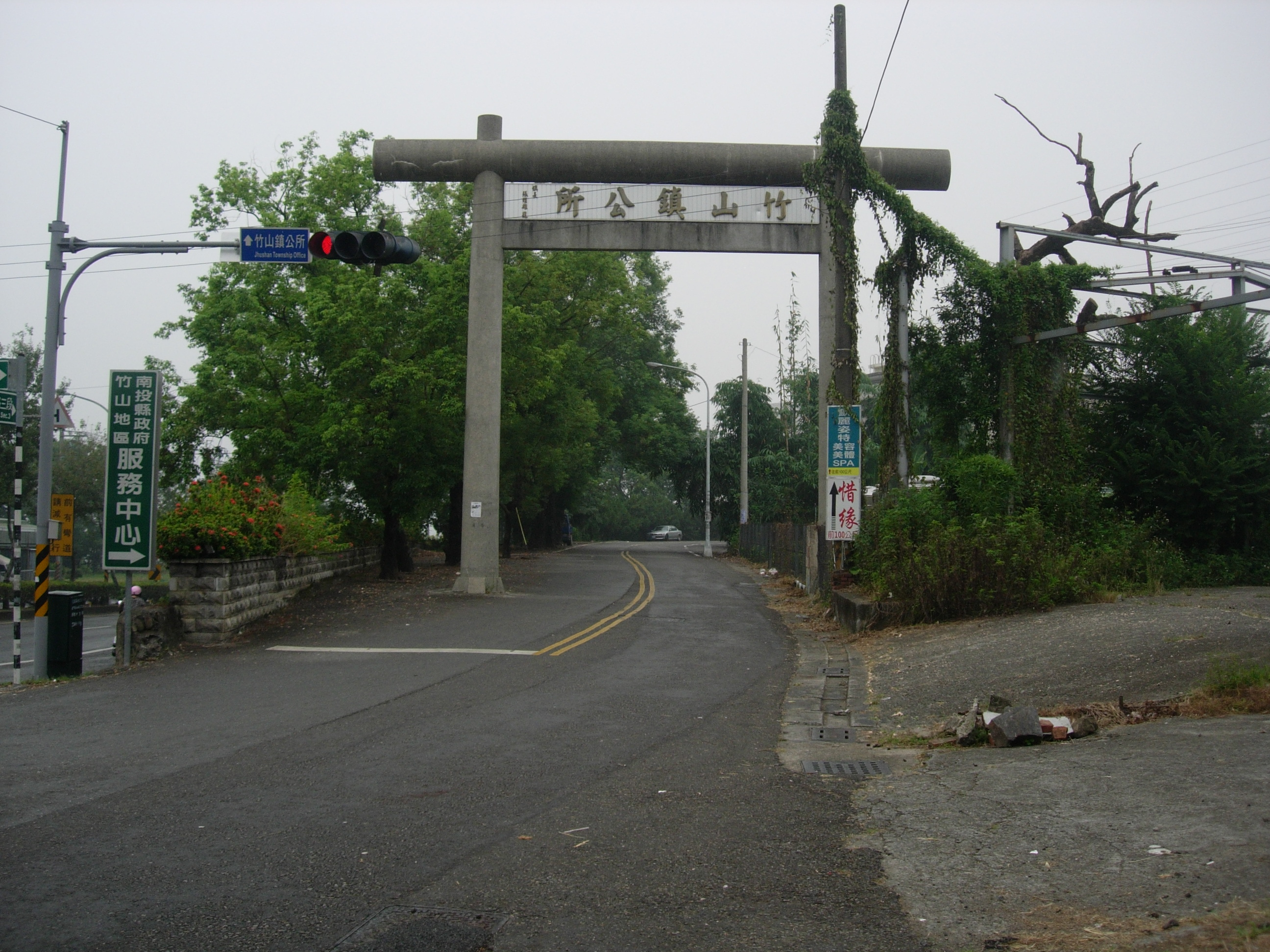 Torii of Takeyama Shrine